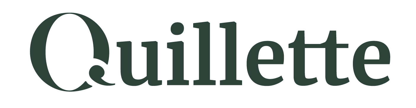 The logo of Quillette